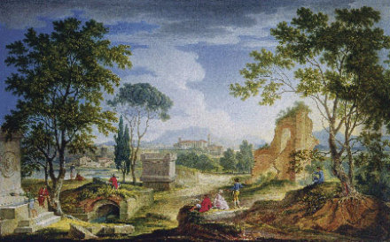 Idyllic Roman Landscape by Adolf Friedrich Harper, who painted this in 1790. It is on display at Ludwigsburg Palace in Germany.